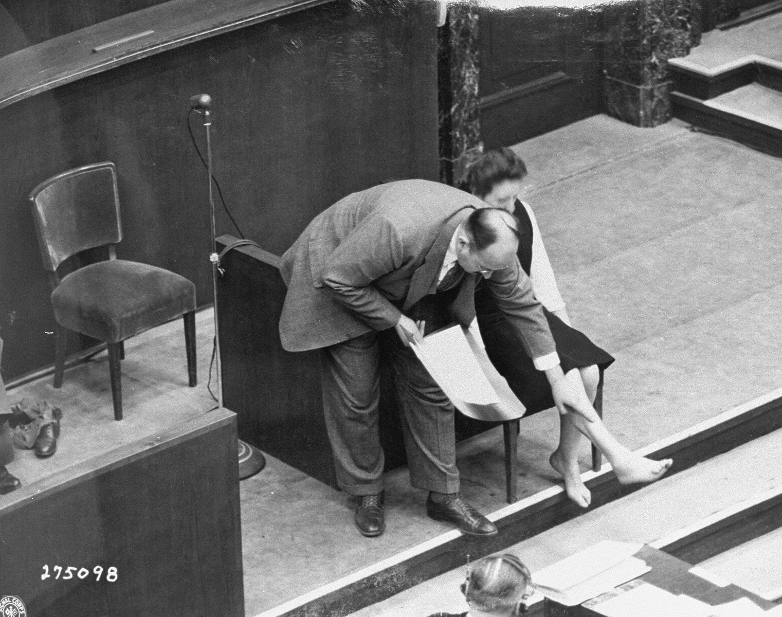 Prosecution witness Dr. Leo Alexander explains the nature of some of the experiments performed on prisoners during his testimony at the Doctors Trial.